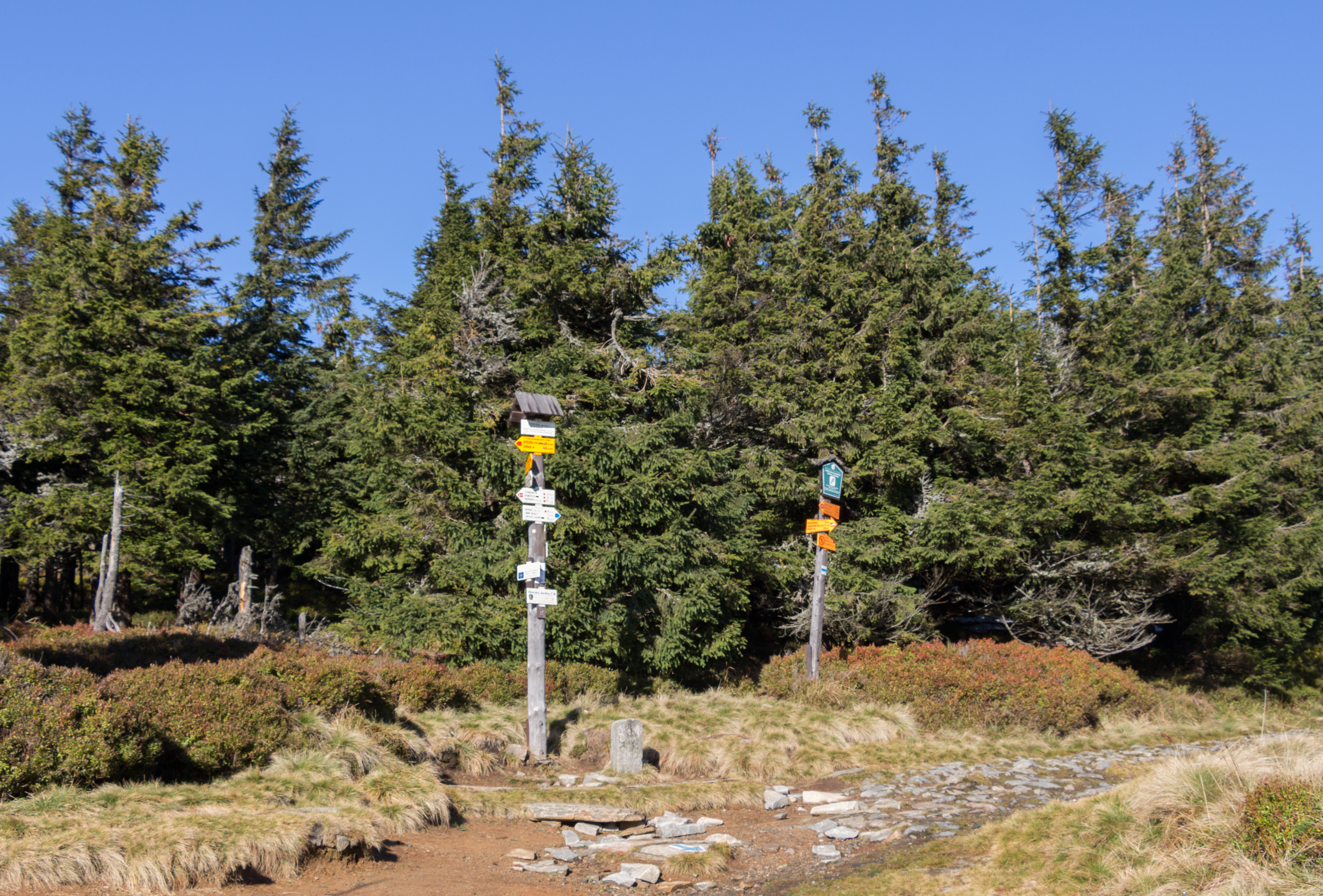 Serak crossroad. Jeseníky, Czech Republic